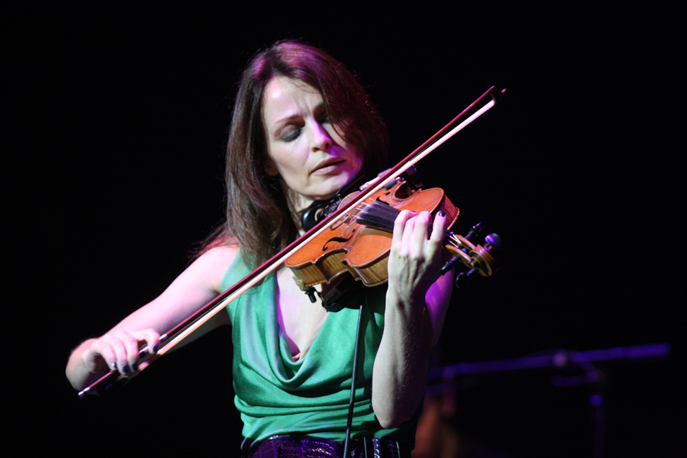 Sharon Corr supporting Ronan Keating at the State Theatre, Sydney.